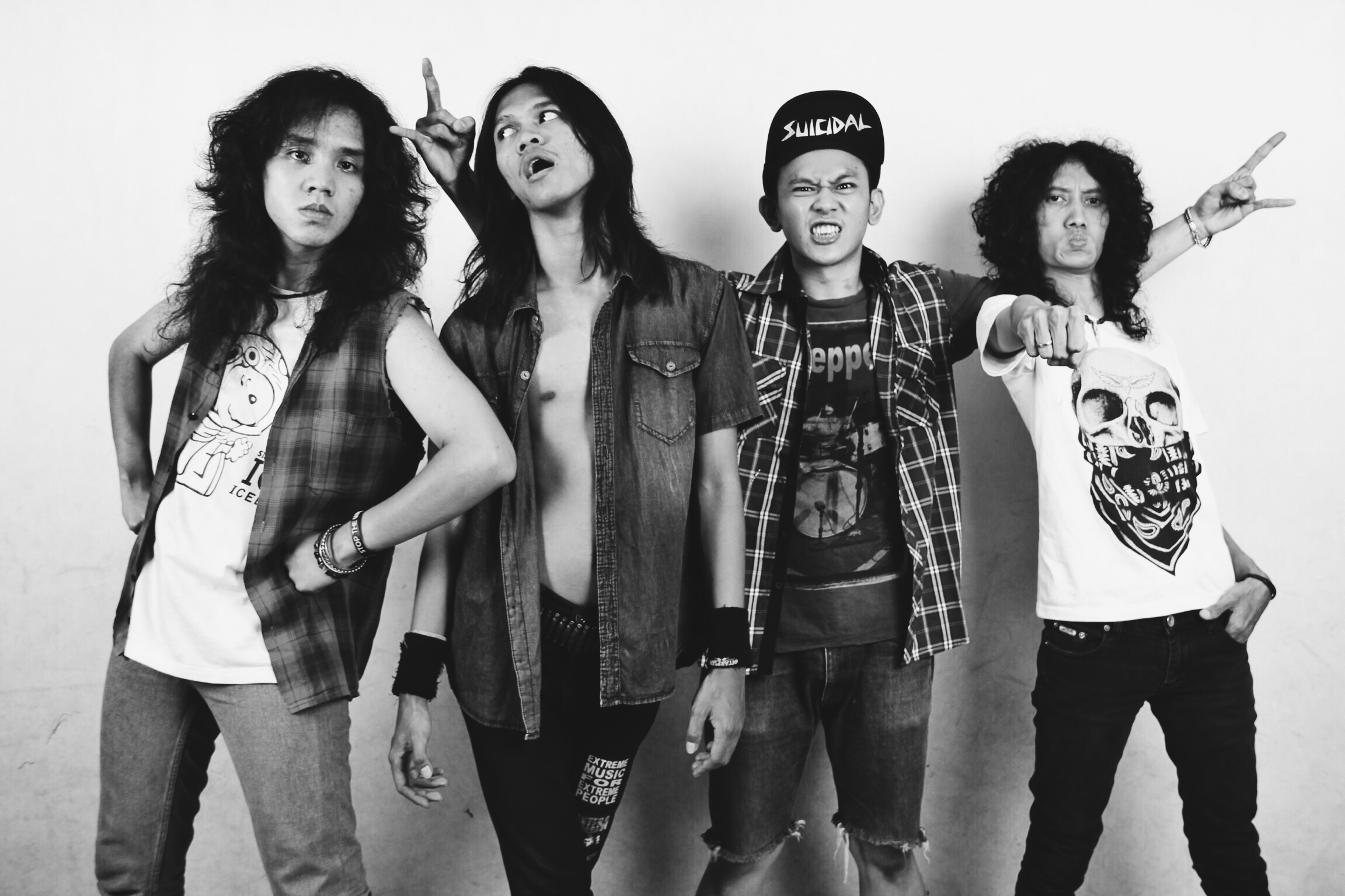 Heavy Metal Punk Machine Band from Indonesia